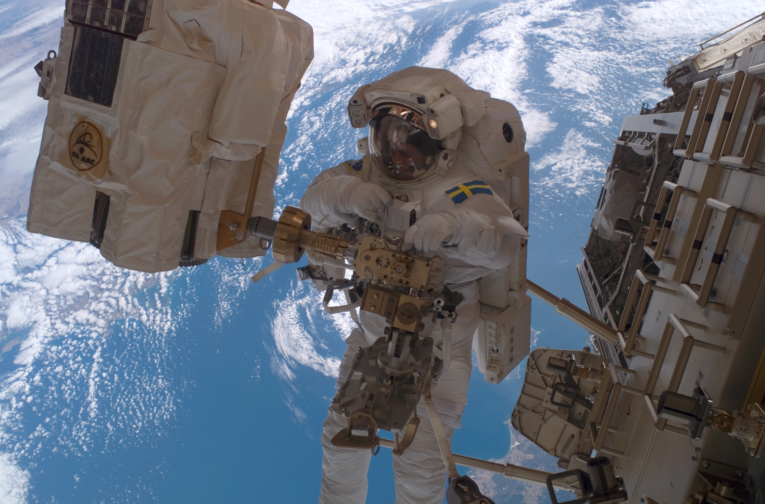 STS-116 Shuttle Mission Imagery European Space Agency (ESA) astronaut Christer Fuglesang, STS-116 mission specialist, participates in the mission's second of three planned sessions of extravehicular activity (EVA) as construction resumes on the International Space Station. Astronaut Robert L. Curbeam, Jr. (out of frame), mission specialist, also participated in the spacewalk. The station's Canadarm2 end effector is at left.